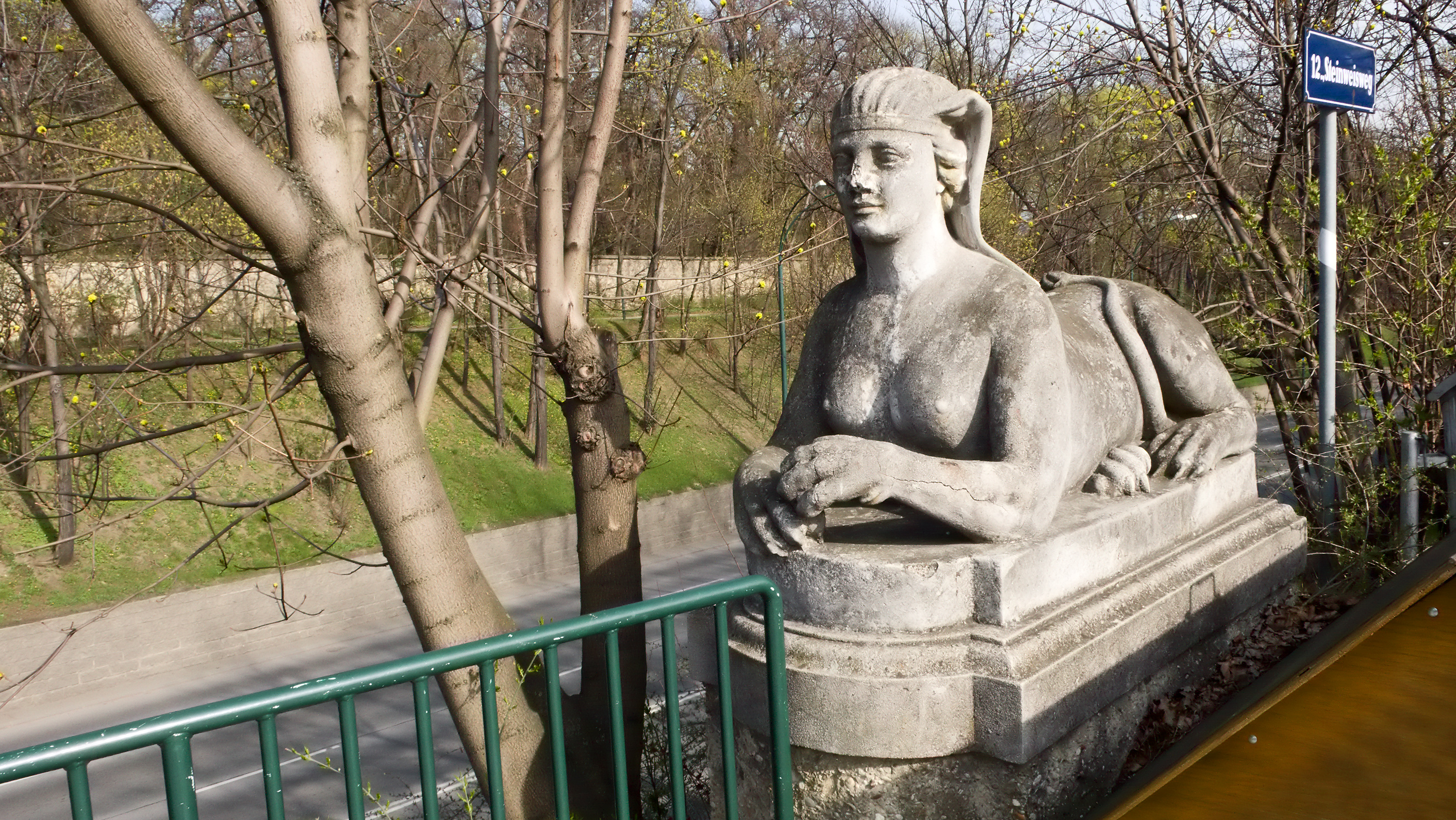 Bridge Tivolibrücke (Wien) in Vienna Hietzing